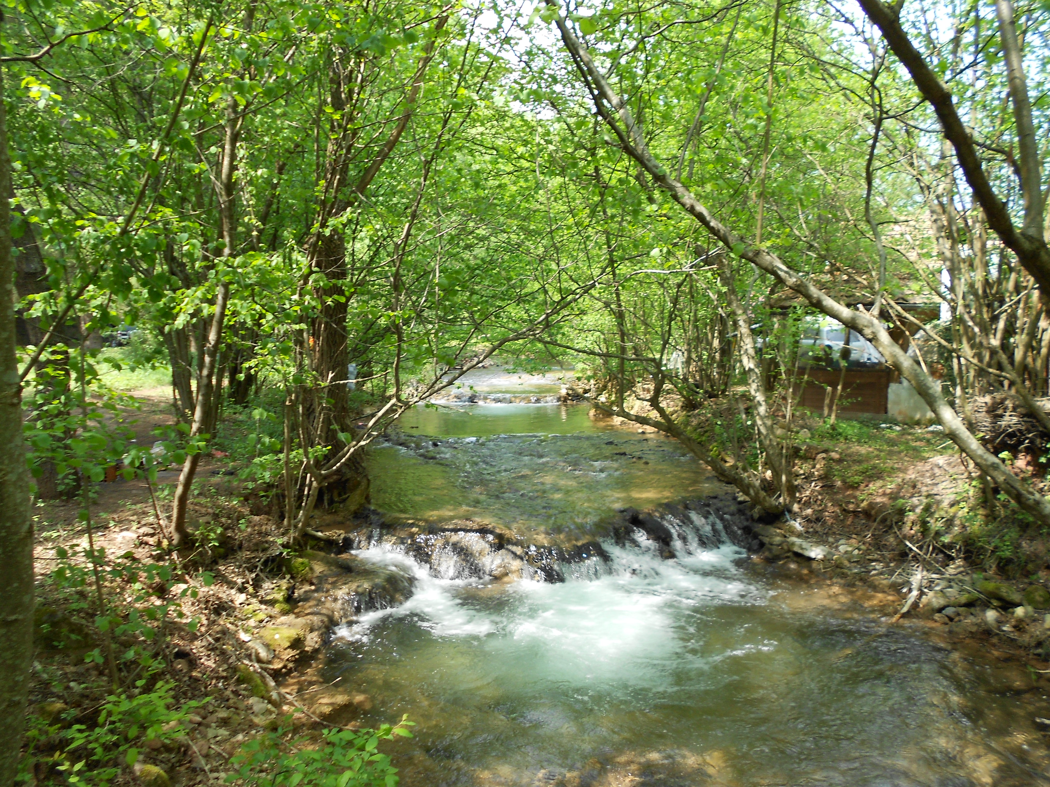 Grza